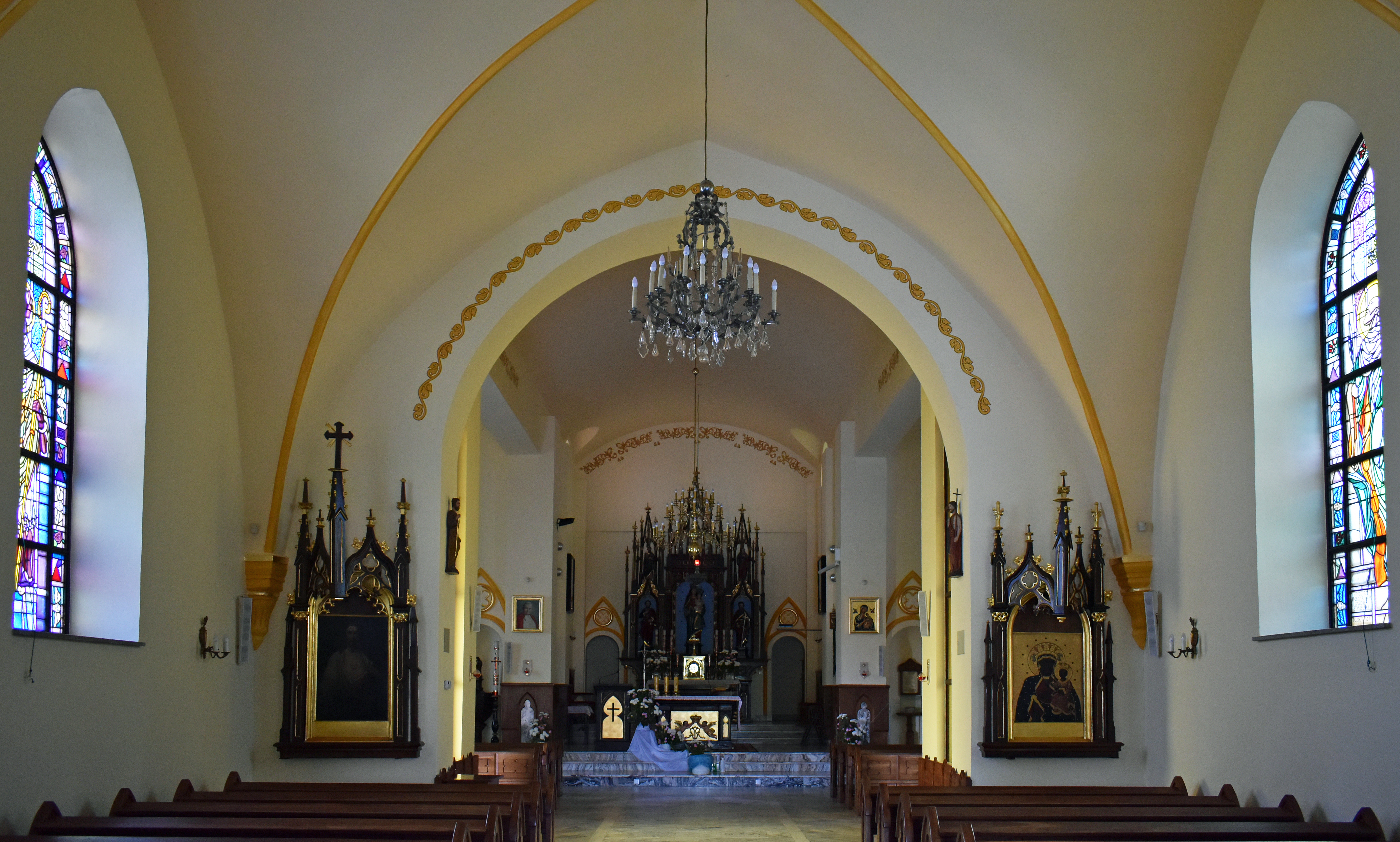 Our Lady of the Rosary Church (interior), 139a Skotnicka street, Skotniki, Krakow, Poland